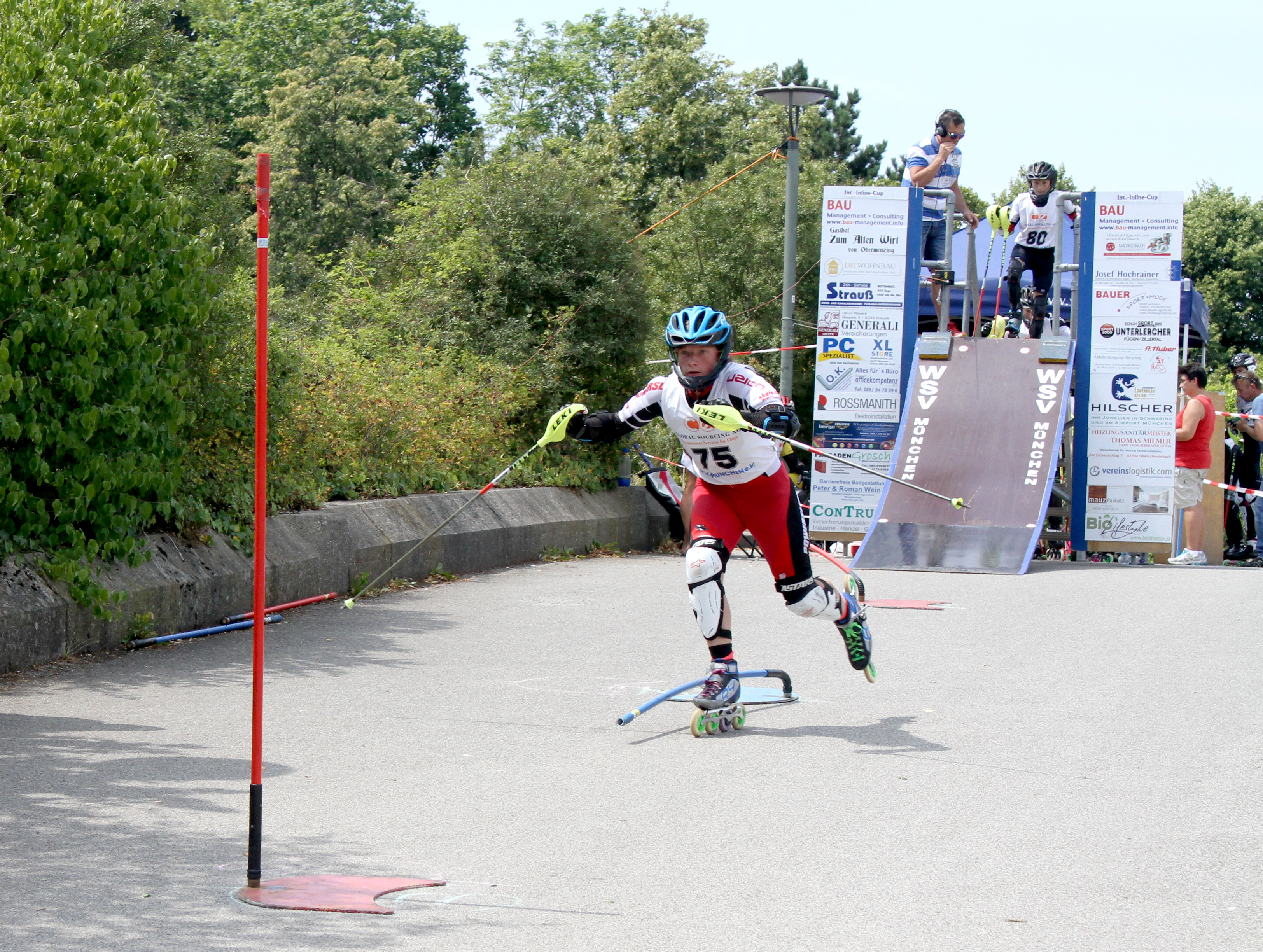 Inline-Alpin - start ramp and full acceleration - Internationaler Münchner Inline Cup, Westpark, München.